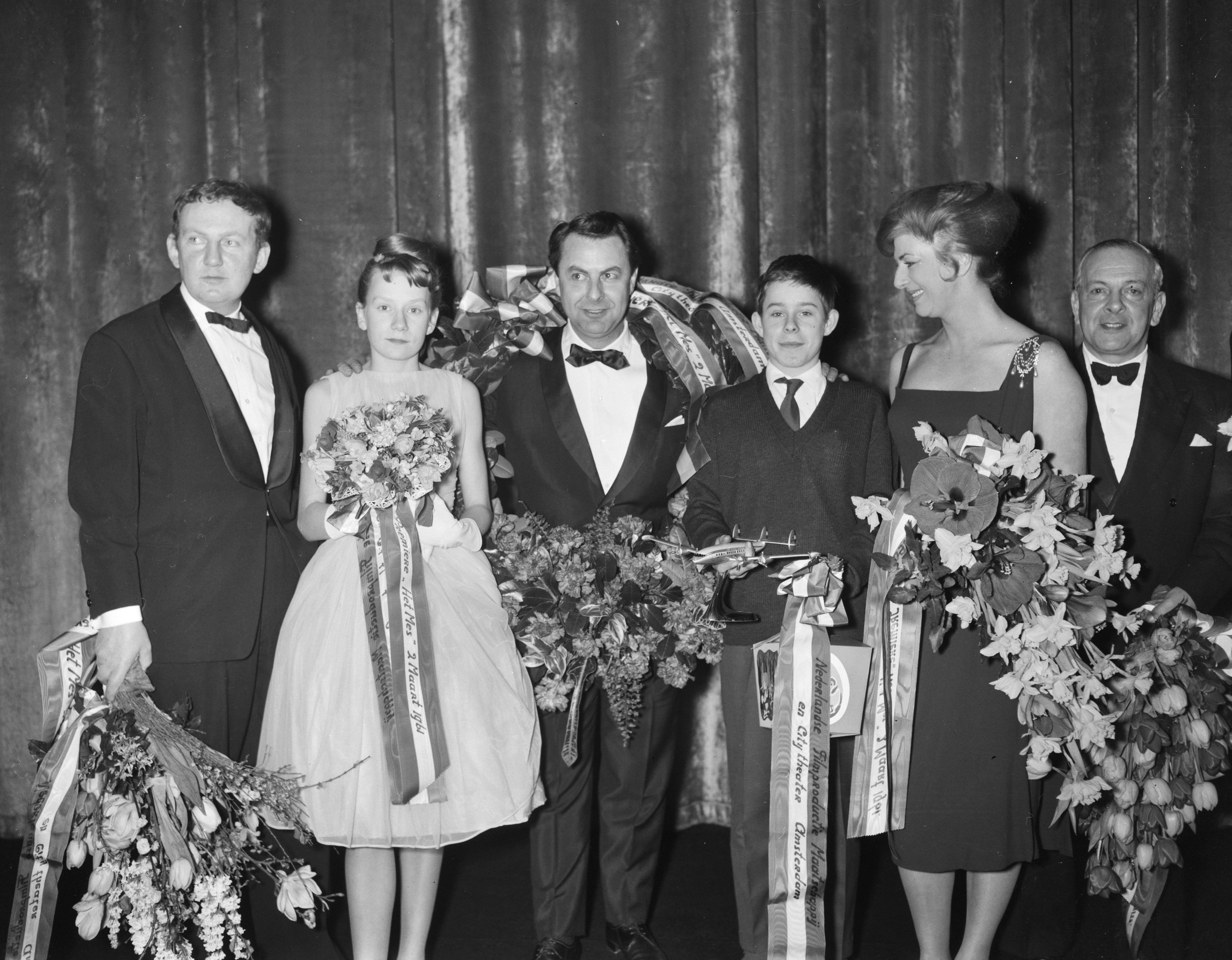 Première van de film Het mes (1961). V.l.n.r. Hugo Claus, Marie-Louise Videc, Fons Rademakers, Reitze van der Linden, Ellen Vogel, Joop Landré.